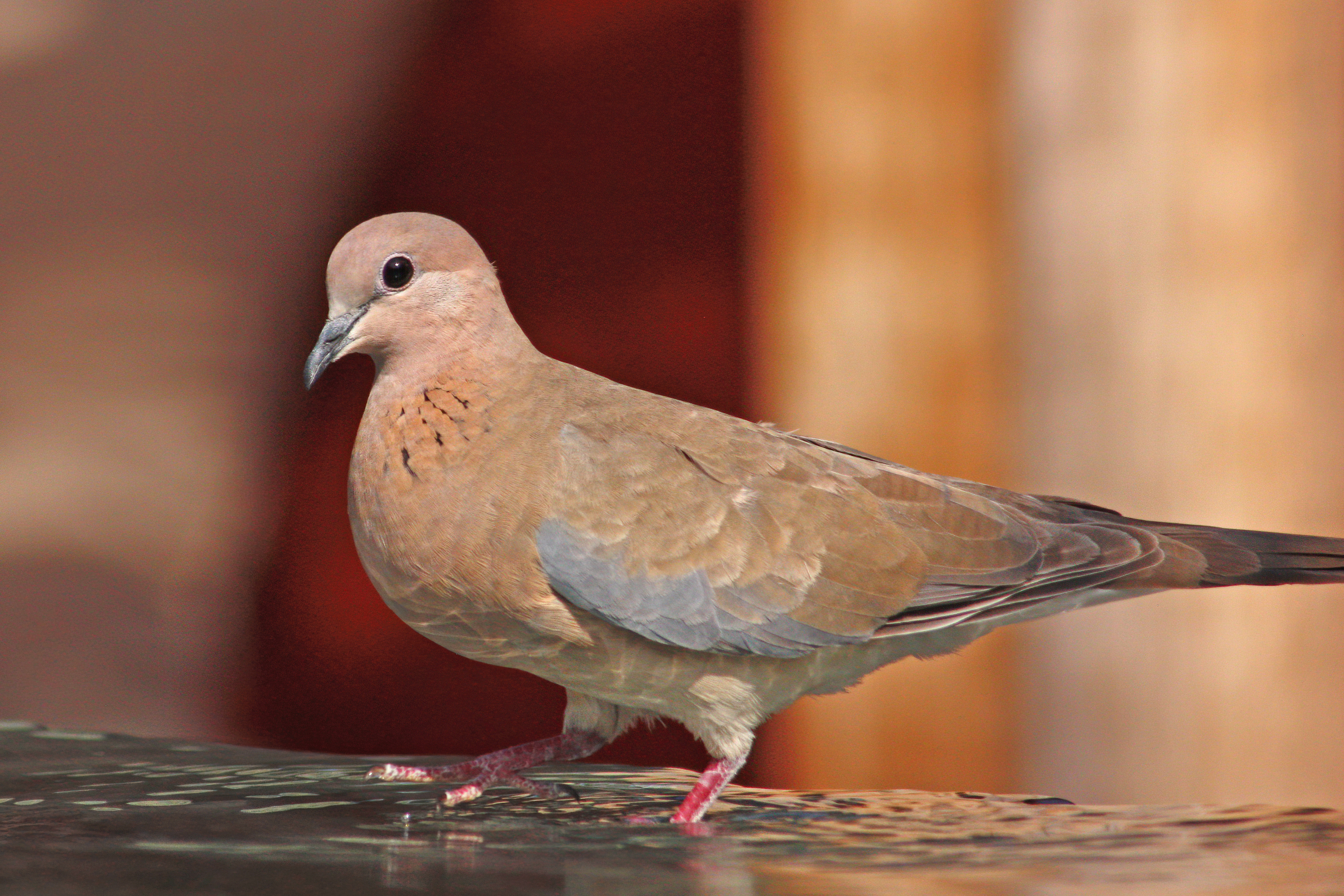 Laughing dove (Spilopelia senegalensis cambayensis) at Zighy Bay in the Musandam Peninsula, Oman